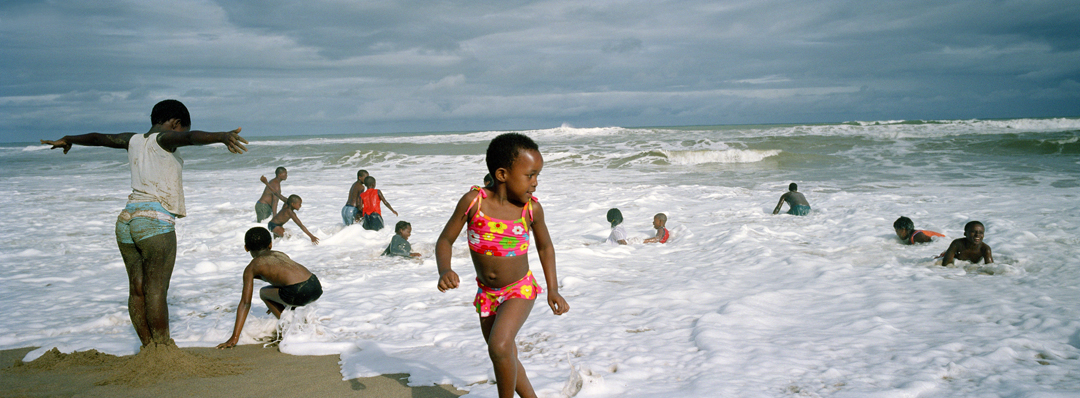 Panoramic photograph by Dave Robertson